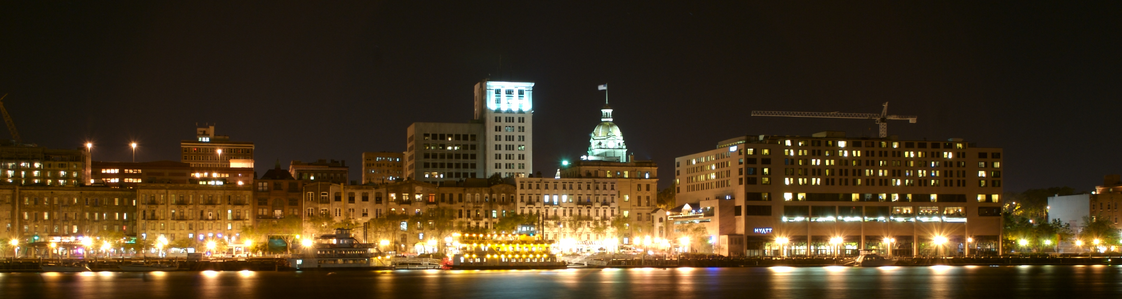 If you use this image, please credit to, (Kingsport Humor) Follow me on Twitter: Long exposure of the River Street district in Savannah, GA.